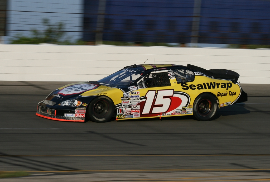 The No. 15 SealWrap Chevrolet driven by Ryan Blaney in the ARCA Racing Series Ansell Protective Gloves 200 at Indianapolis Raceway Park in 2011.